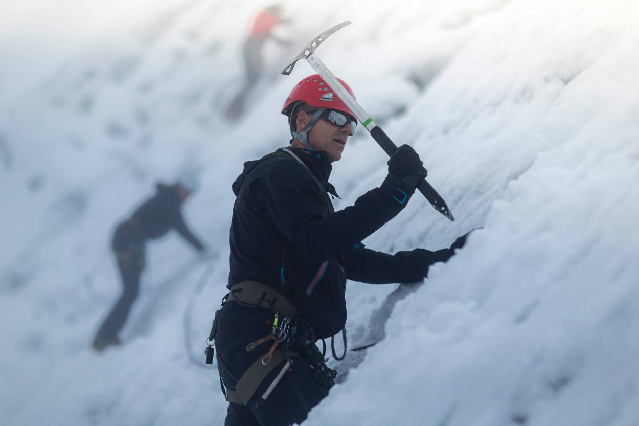 Mountain leaders of NLMARSOF climbing a mountain in the Swiss Alps.